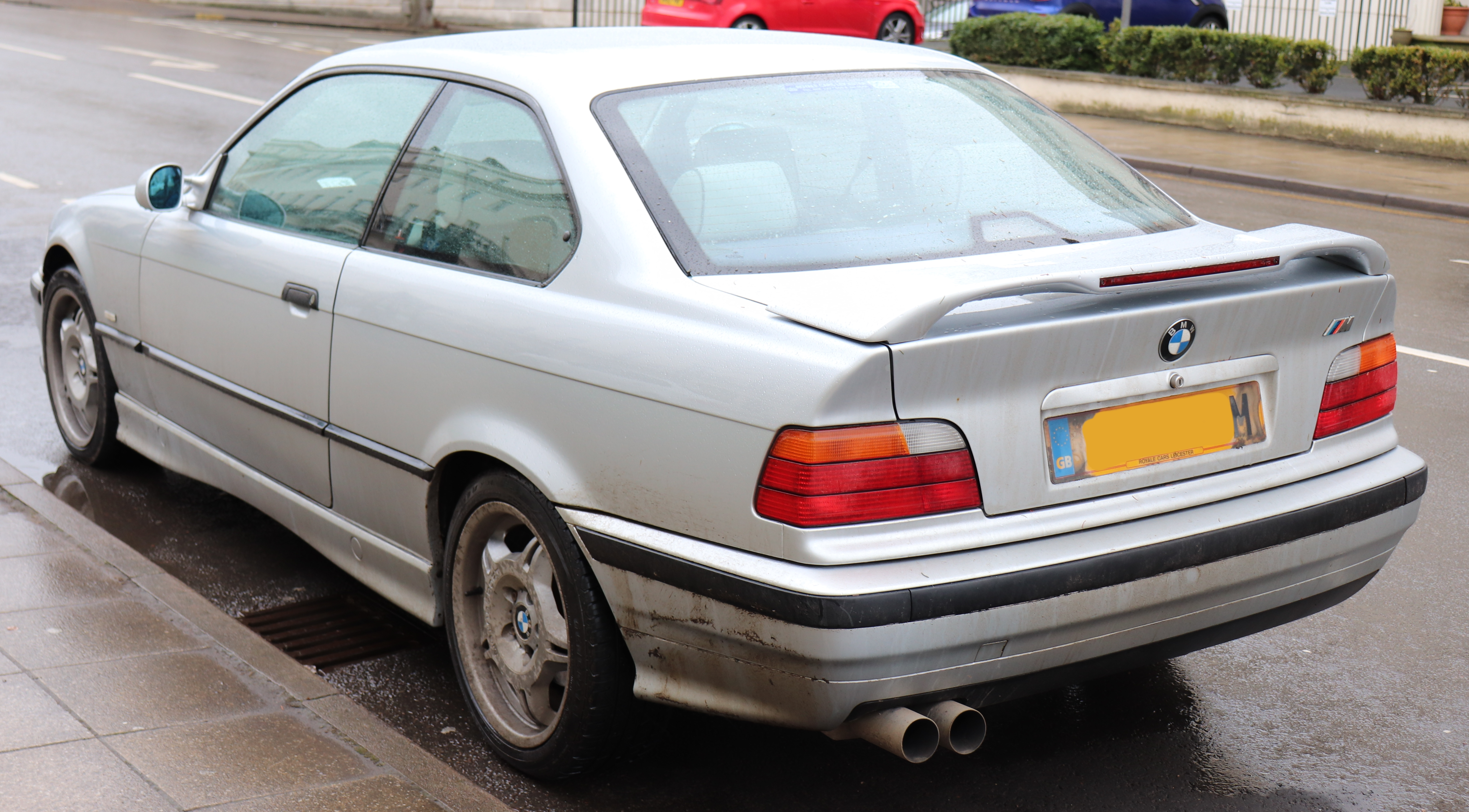 1998 BMW 323i 2.5 Rear Taken in Leamington Spa